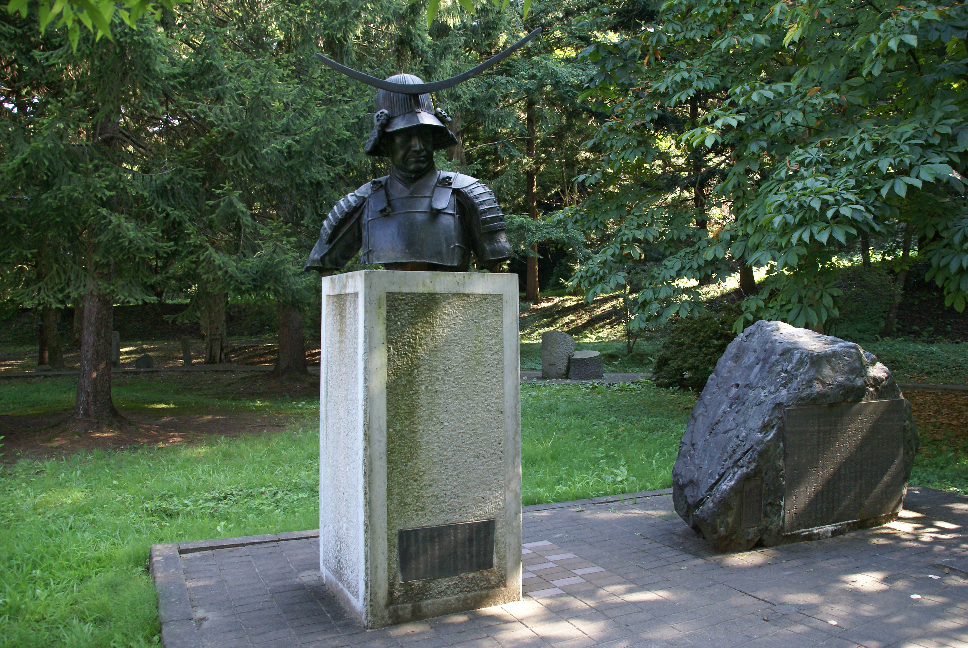 Sendai City Museum of Art in Sendai, Miyagi prefecture, Japan